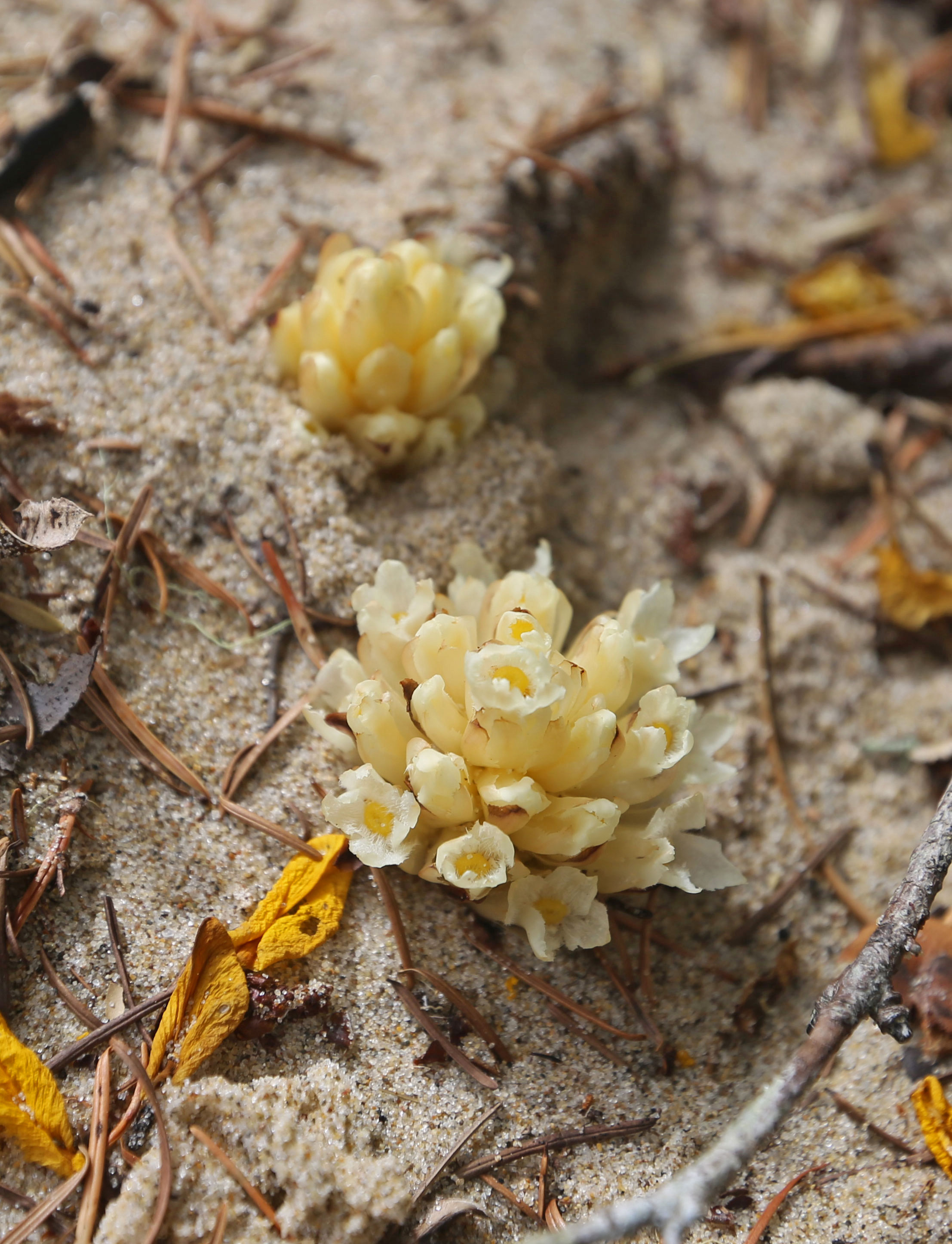 Gnome plant (Hemitomes congesta) You are free to use this image with the following photo credit: Peter Pearsall/U.S. Fish and Wildlife Service